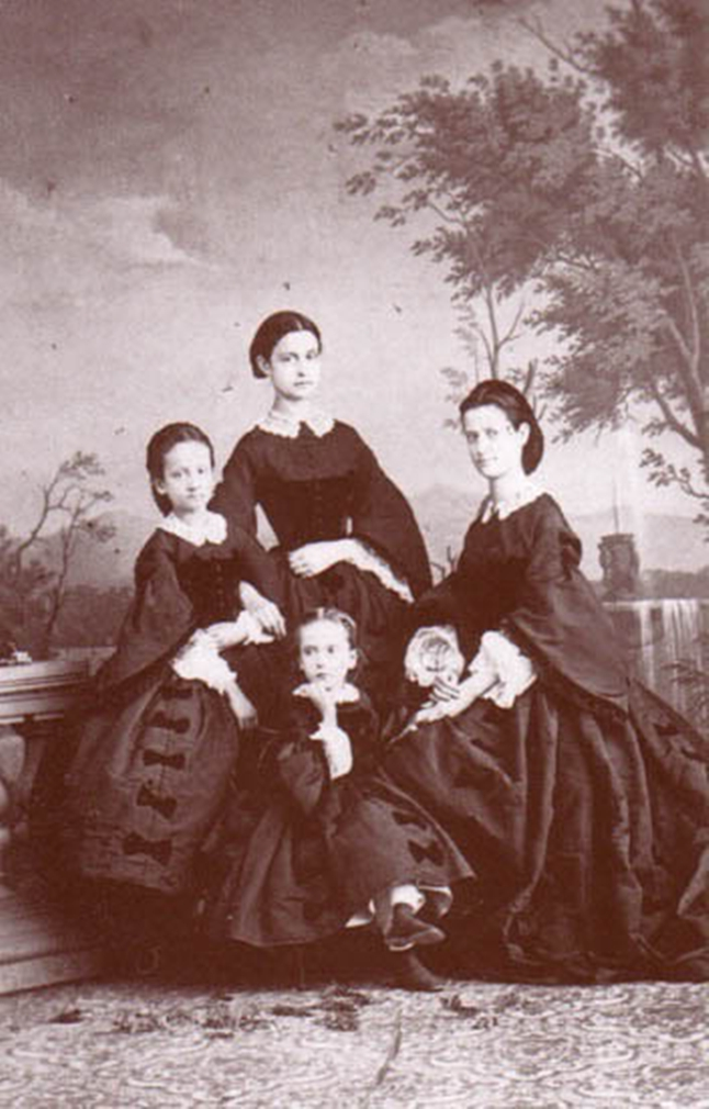 Princesas da Casa de Bourbon-Duas Sicílias, filhas do rei Fernando II e da rainha Maria Teresa Isabel da Áustria (em sentido anti-horário): Princesa Maria Imaculada (1844-1899), Princesa Maria Pia (1849-1882), Princesa Maria Luísa (1855-1874) e Princesa Maria Anunciata (1843–1871).